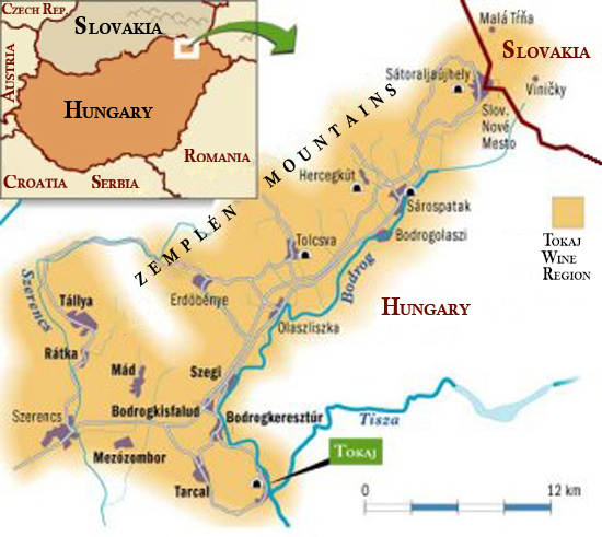 Full map of Tokaj wine Region with both Hungarian and Slovakian parts.